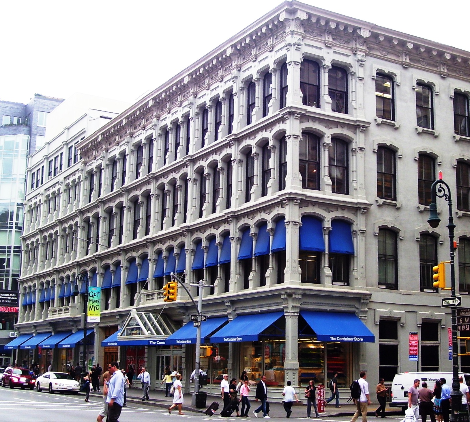 615-629 Avenue of the Americas (Sixth Avenue) between West 18th and 19th Streets in the Flatiron District of Manhattan, New York City. Originally the B. Altman Dry Goods Store, built 1876-77 (David & John Jardine), with addition on the south in 1887 by William H. Hume, and on West 18th Street by Buchman & Fox, 1909. B. Altman moved to Fifth Avenue and 34th Street in 1906. The current street retail occupant is The Container Store.